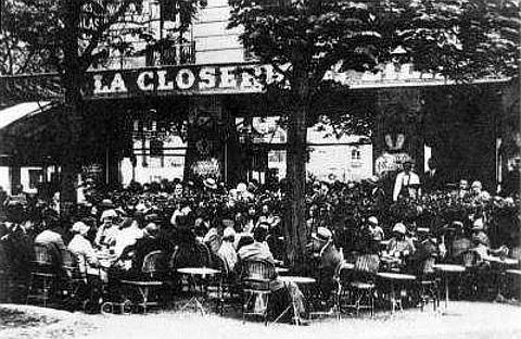 1909 photo in public domain